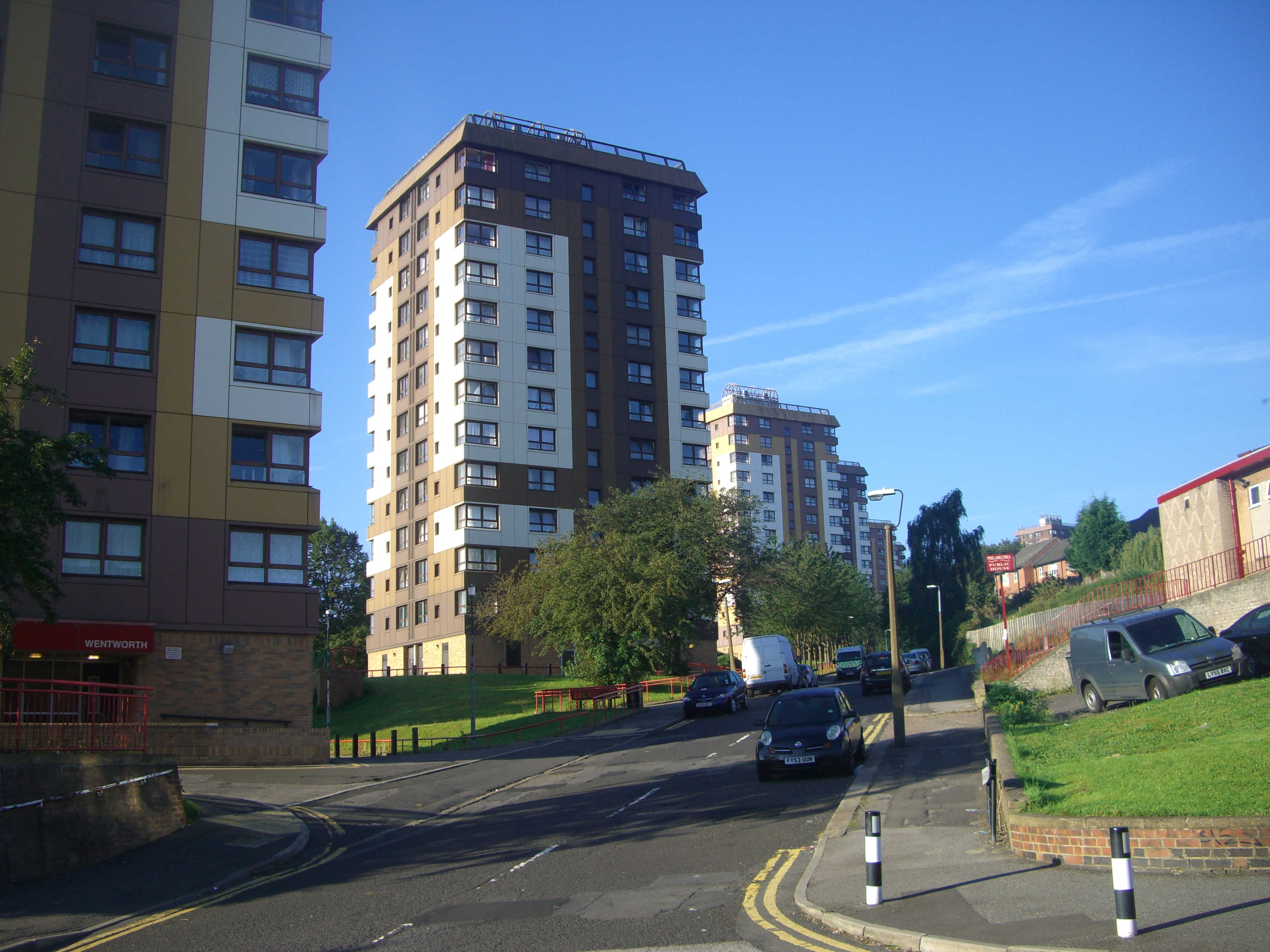 Tower blocks on Martin Street at Upperthorpe, Sheffield, England